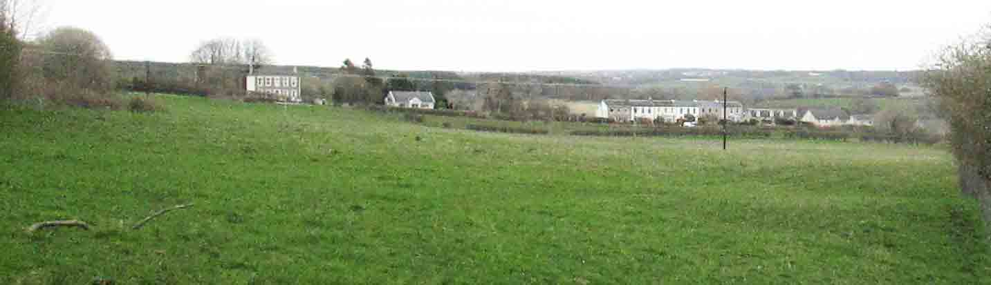 Tillietudlem village seen from the south, with Fence Terrace to the right of centre